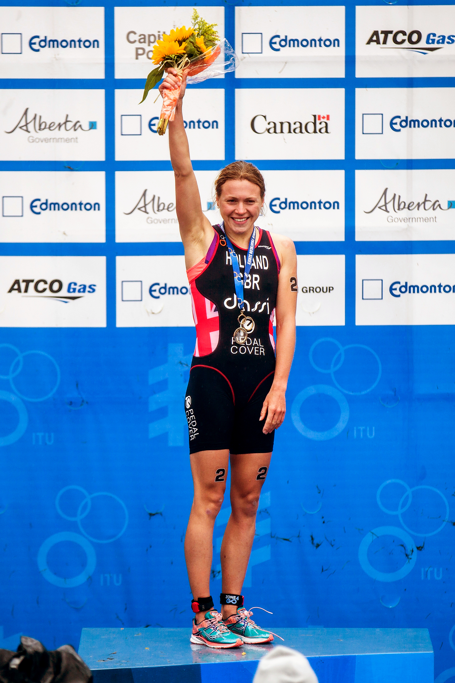 Vicky Holland World Triathlon Series Tour 2015 - Edmonton